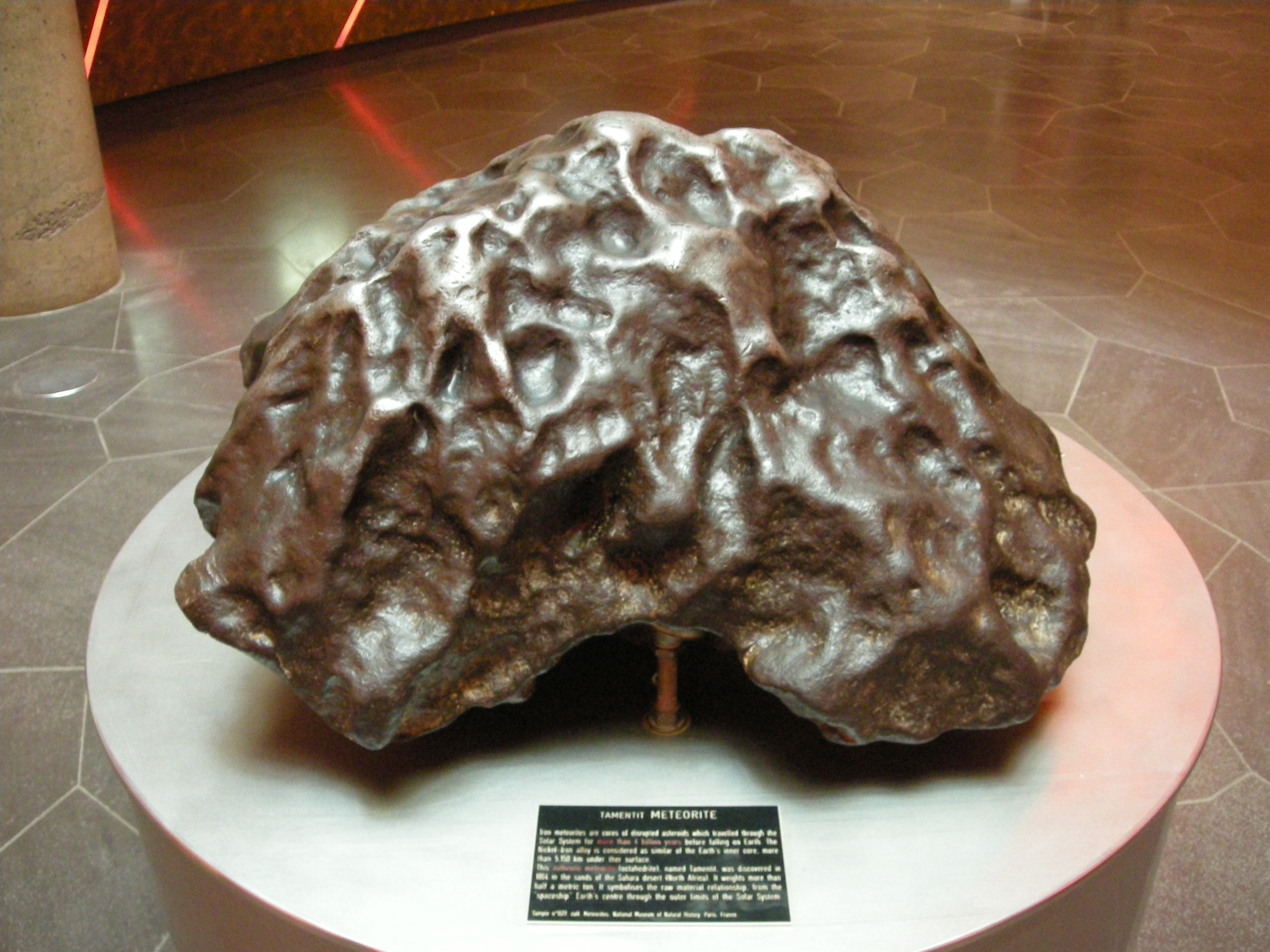 The Tamentit Meteorite, weighing half a ton, was discovered in the sands of the Algerian Sahara in 1864 near of Tamentit city . It is currently on display at Parc Vulcania (Puy-de-Dôme), on loan from the Museum national d'Histoire naturelle de Paris.